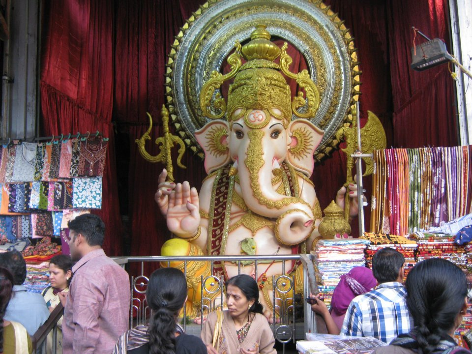 On permanent display. This picture was taken in January 2012